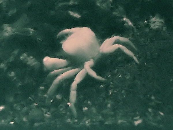 Regnum: Animalia • Phylum: Arthropoda • Classis: Crustacea • Ordo: Decapoda • Familia: Bythograeidae • Genus: Austinograea Species Austinograea yunohana The hydrothermal vent crab. Originally, body color of this crab is white.